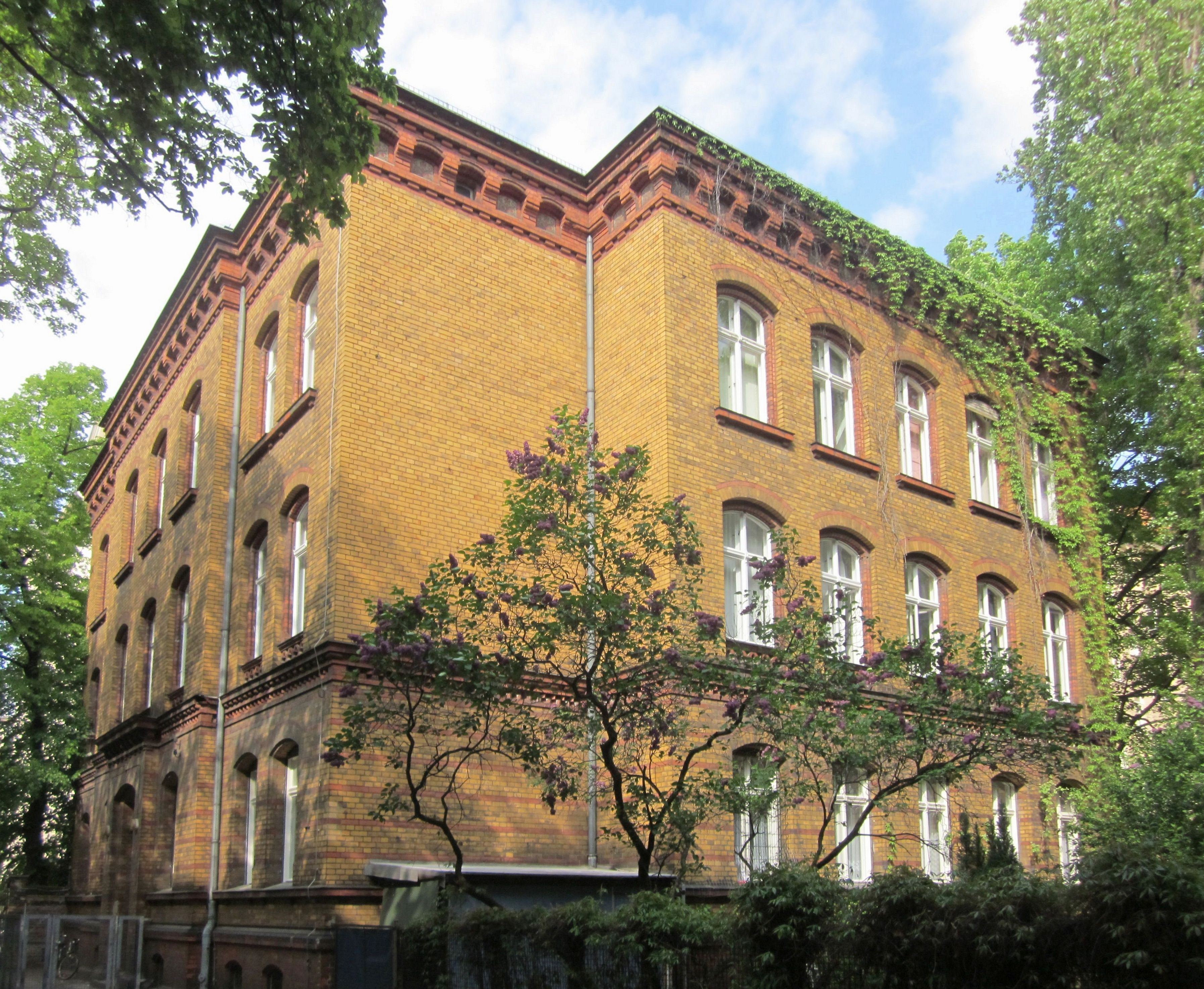 Former teachers' residence of the 40th Municipal School Berlin at Gneisenaustraße No. 7 in Berlin-Kreuzberg, now part of the complex of the Lina Morgenstern School. The 40th Municipal School was built from 1891 to 1892 to designs by Hermann Blankenstein, August Lindemann, and Fritz Haack. It was located on the same lot where, from 1880 to 1881, the 91st and 101st Municipal Schools had been erected, also by Blankenstein. All buildings of the three municipal schools (with the exeception of a sports hall that was destroyed in WWII) constitute a complex that has been designated as a cultural heritage monument.